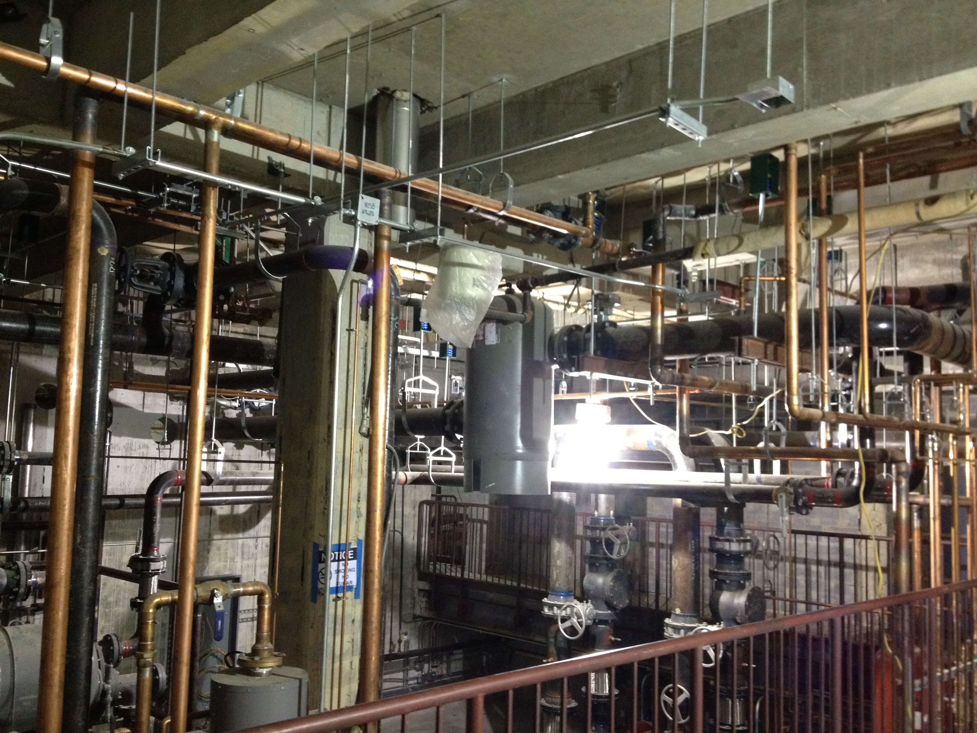 One of the MEP rooms in a building at Virginia Tech, in the Center for the Performing Arts